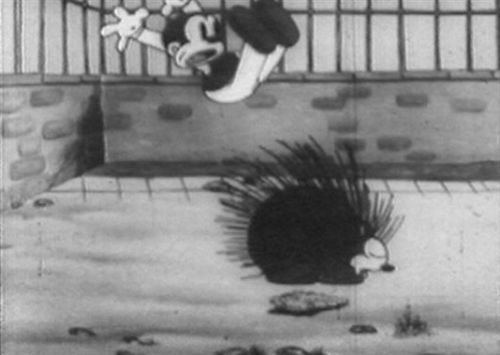 scene from public domain animated feature Bosko at the Zoo